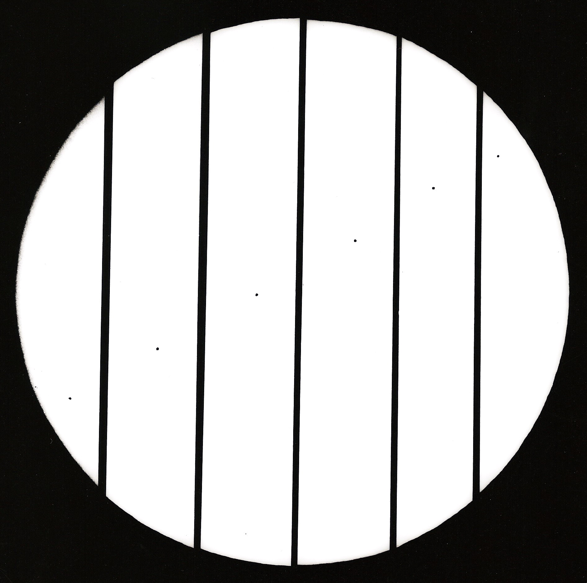 Transit of Mercury, 1973-11-10, Specola solare in Locarno-Monti, Suisse. Telescope: Maksutov 63 / 550 / 1650 mm